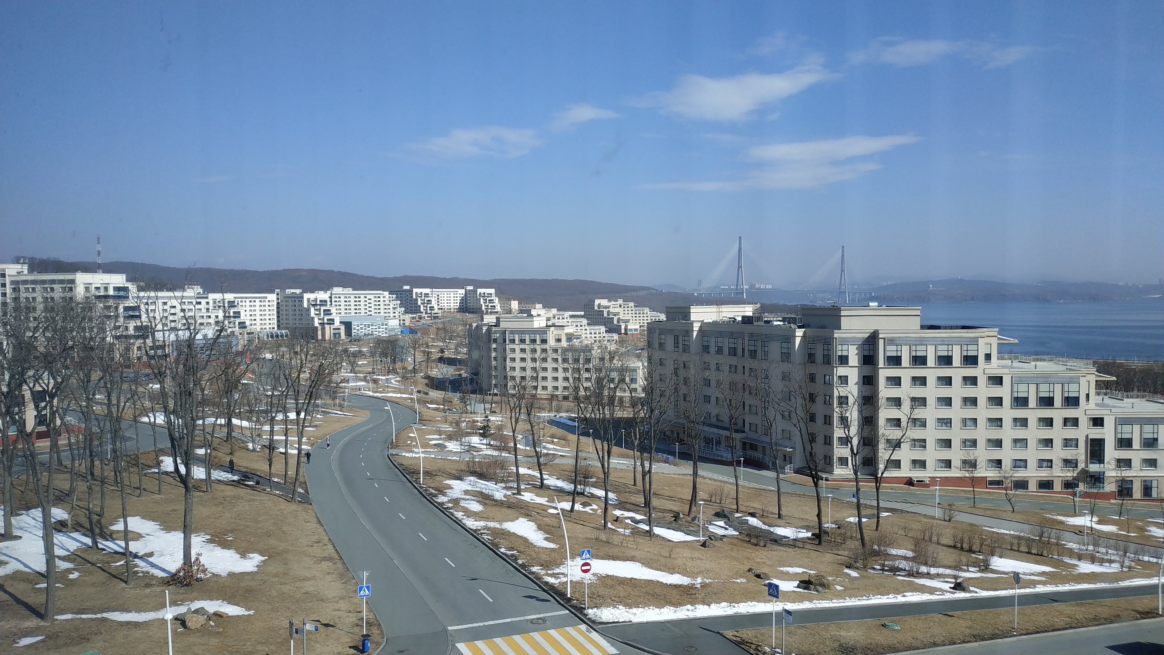 FEFU campus, north hotel buildings